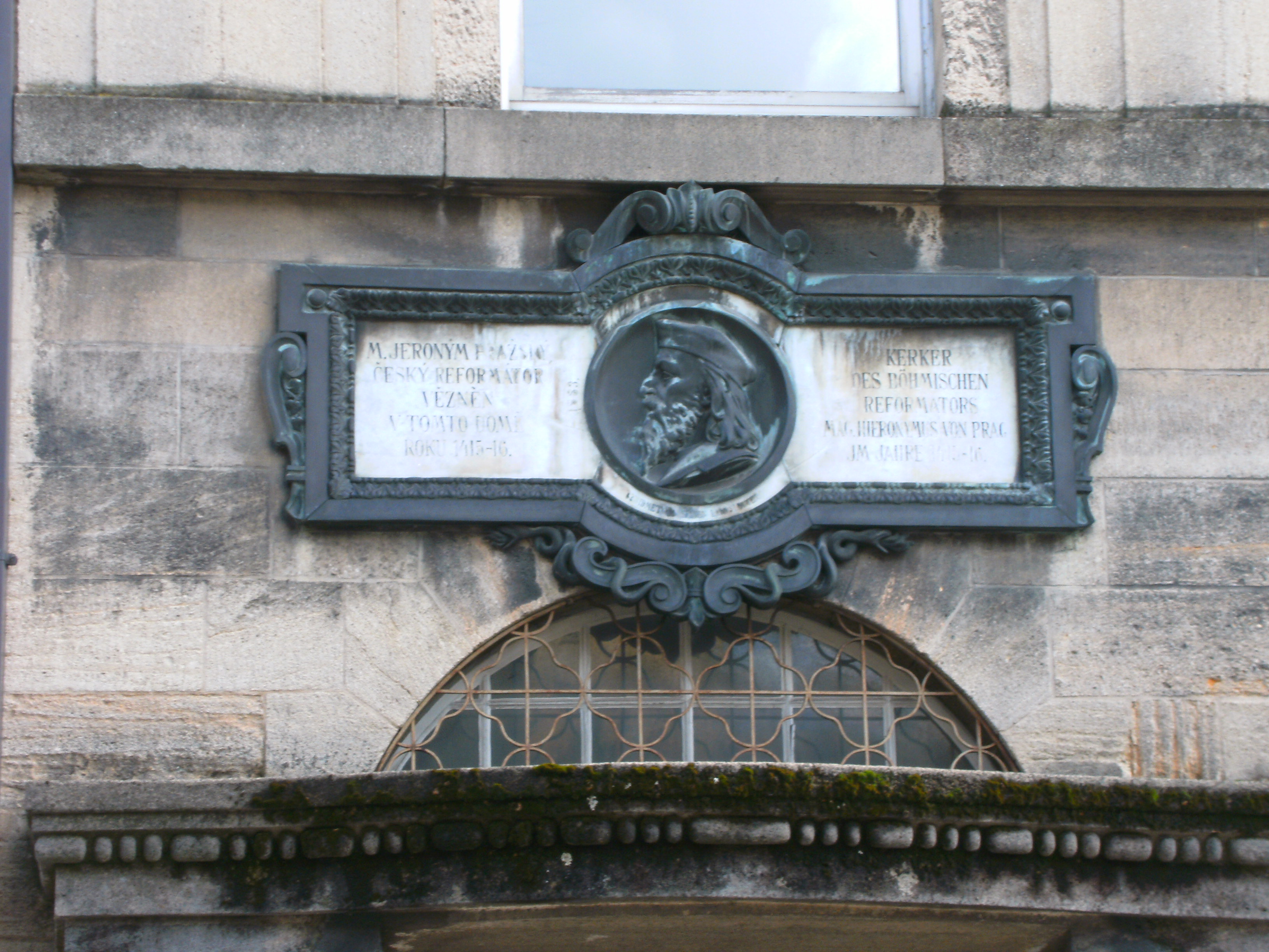 Konstanz, Germany, Obere Laube 74 (street): Büste of Hieronymus von Prag.